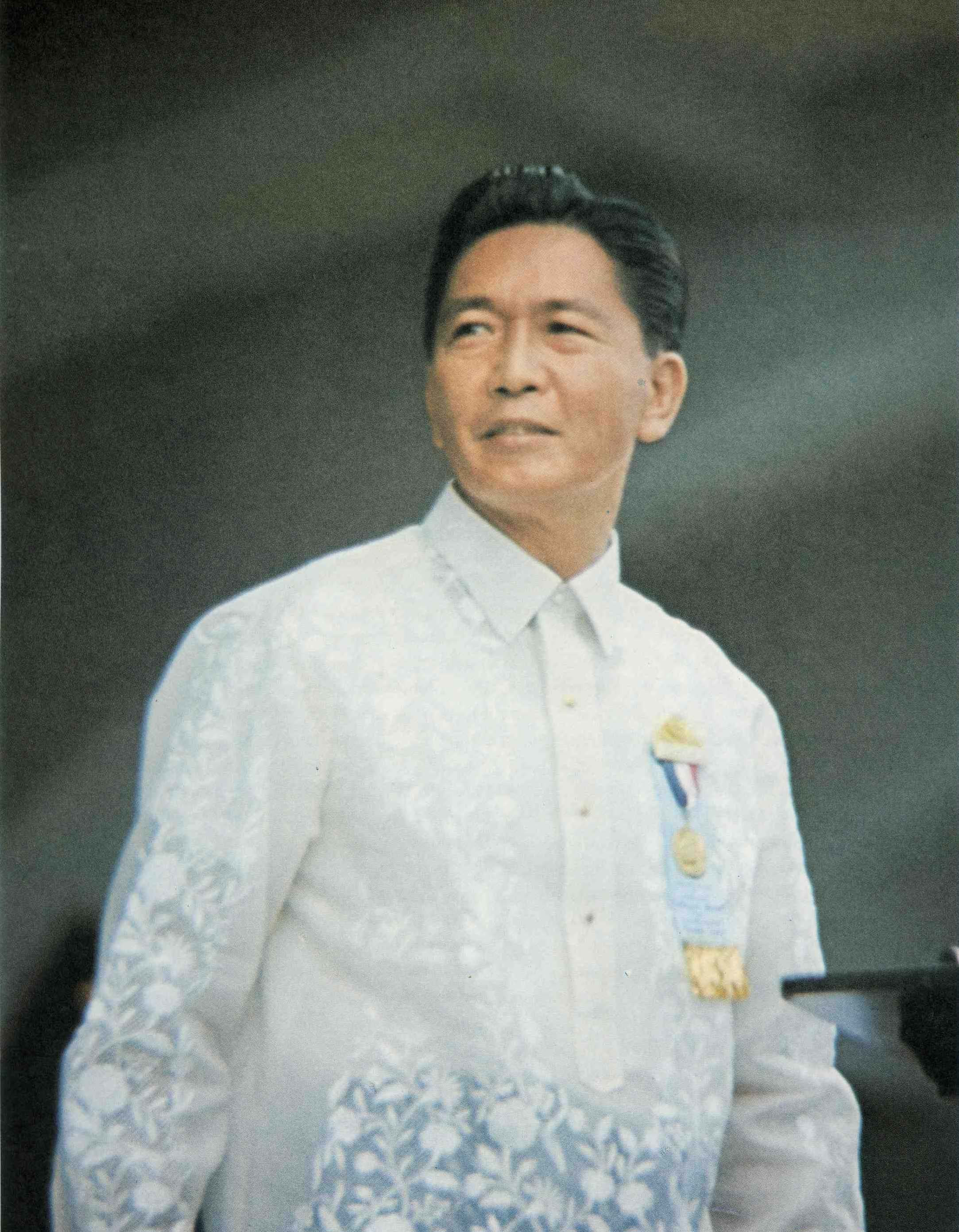 Portrait photo of President Ferdinand Marcos